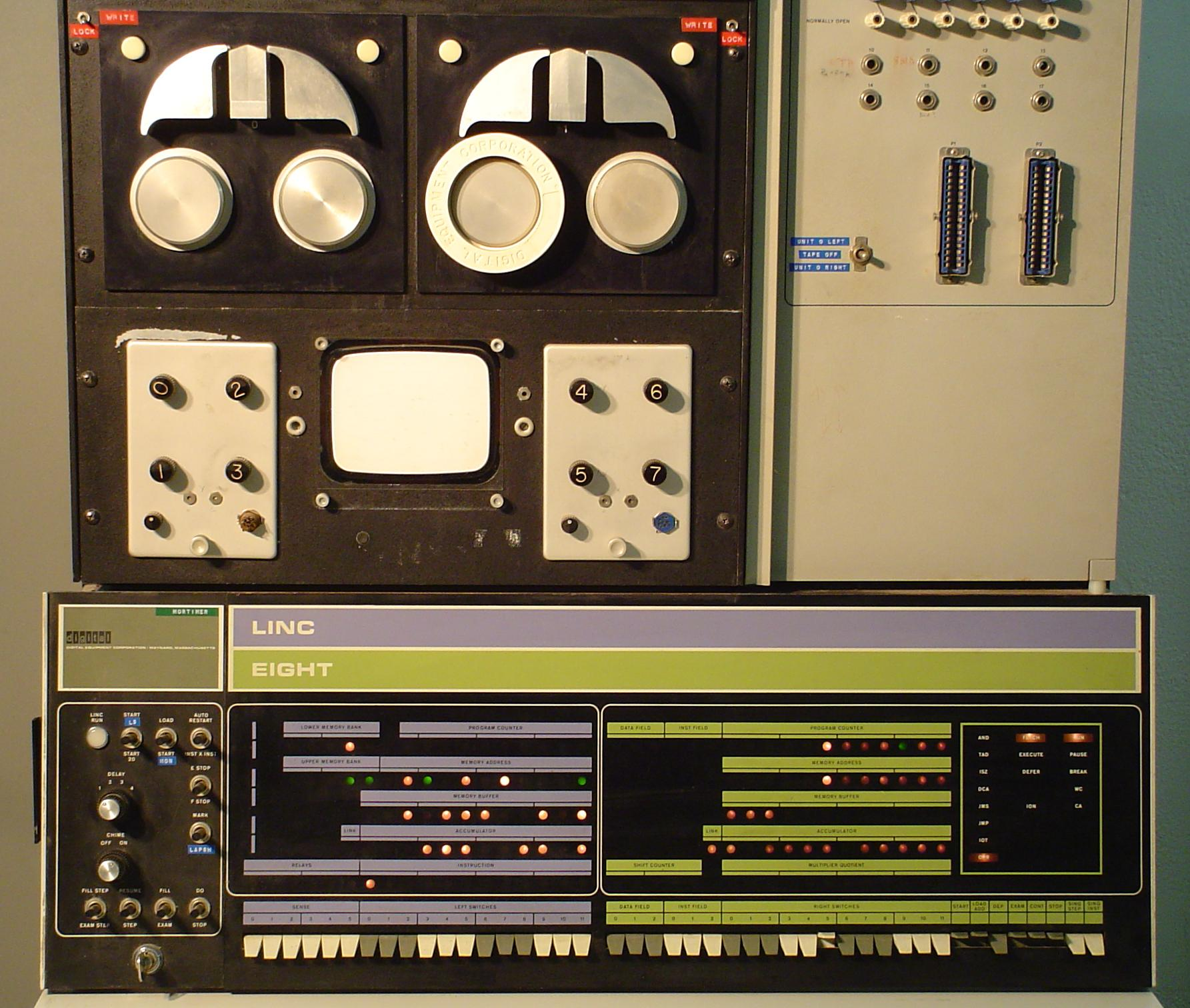 A partially restored LINC-8 running at the RCS/RI.